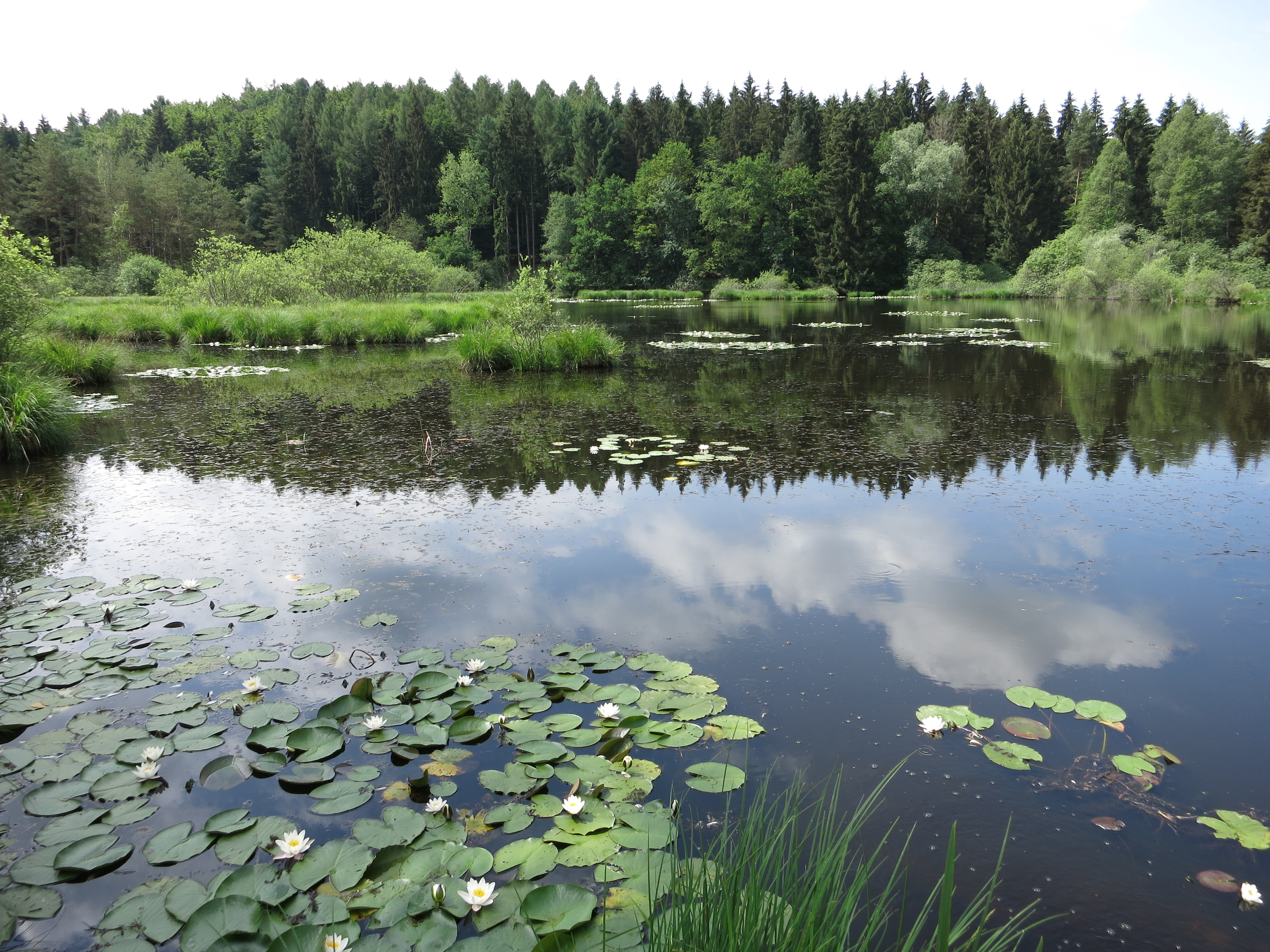 Natural reserve Dingelsdorfer Ried